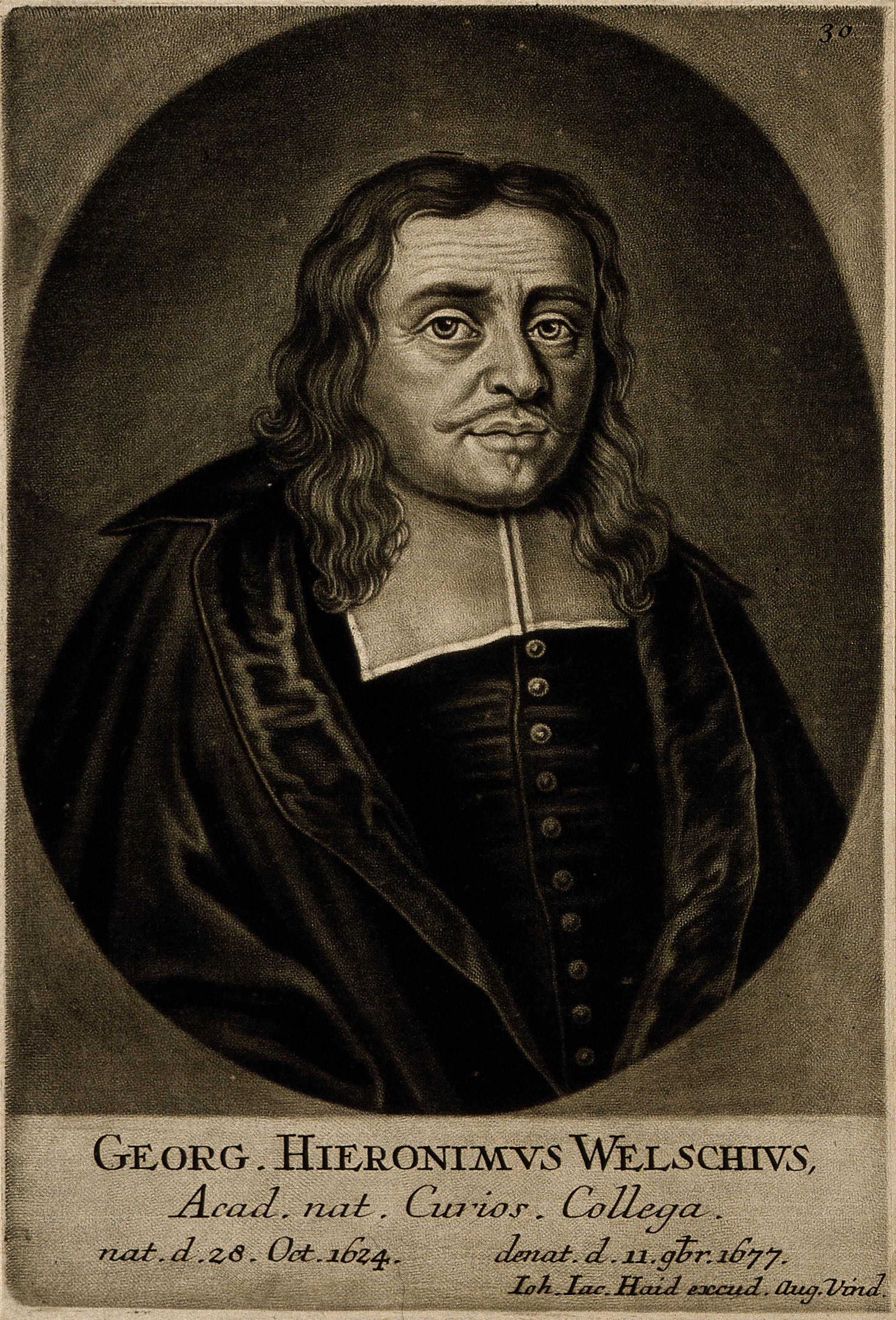 Georg Hieronymus Welsch. Mezzotint by J. J. Haid, 1747. Iconographic Collections Keywords: portrait prints; mezzotints; Georg Hieronymus Welsch